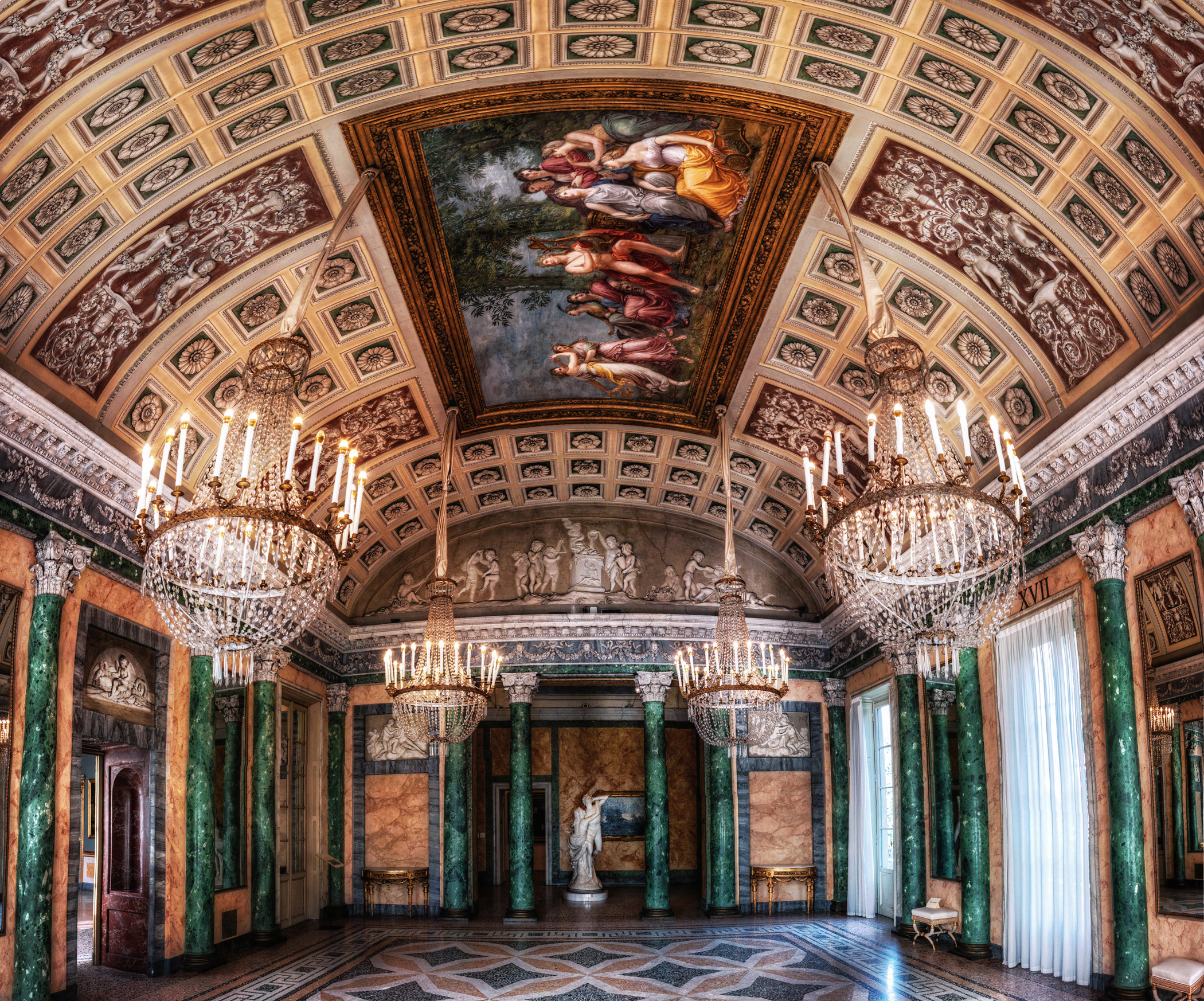 This is a photo of a monument which is part of cultural heritage of Italy.